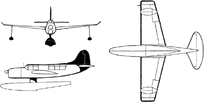 Line drawings for the U.S. Navy Curtiss SO3C Seamew.